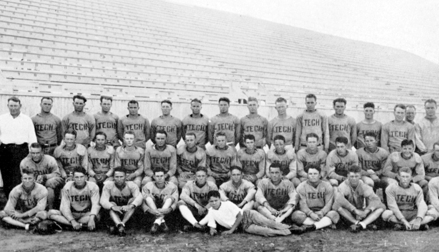 The 1928 Matador football team